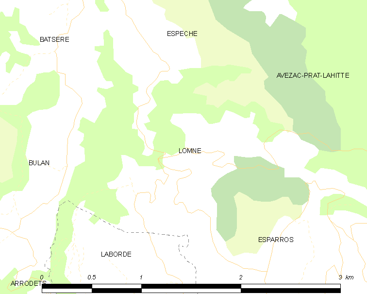 Map of French municipality